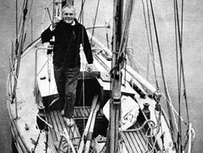 Leonid Teliga during his circumnavigation of the Globe in the 70s